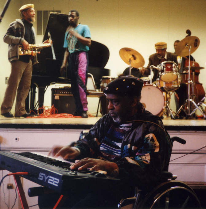 Sun Ra at New England Conservatory, February 27, 1992. Photo by Pandelis Karayorgis.